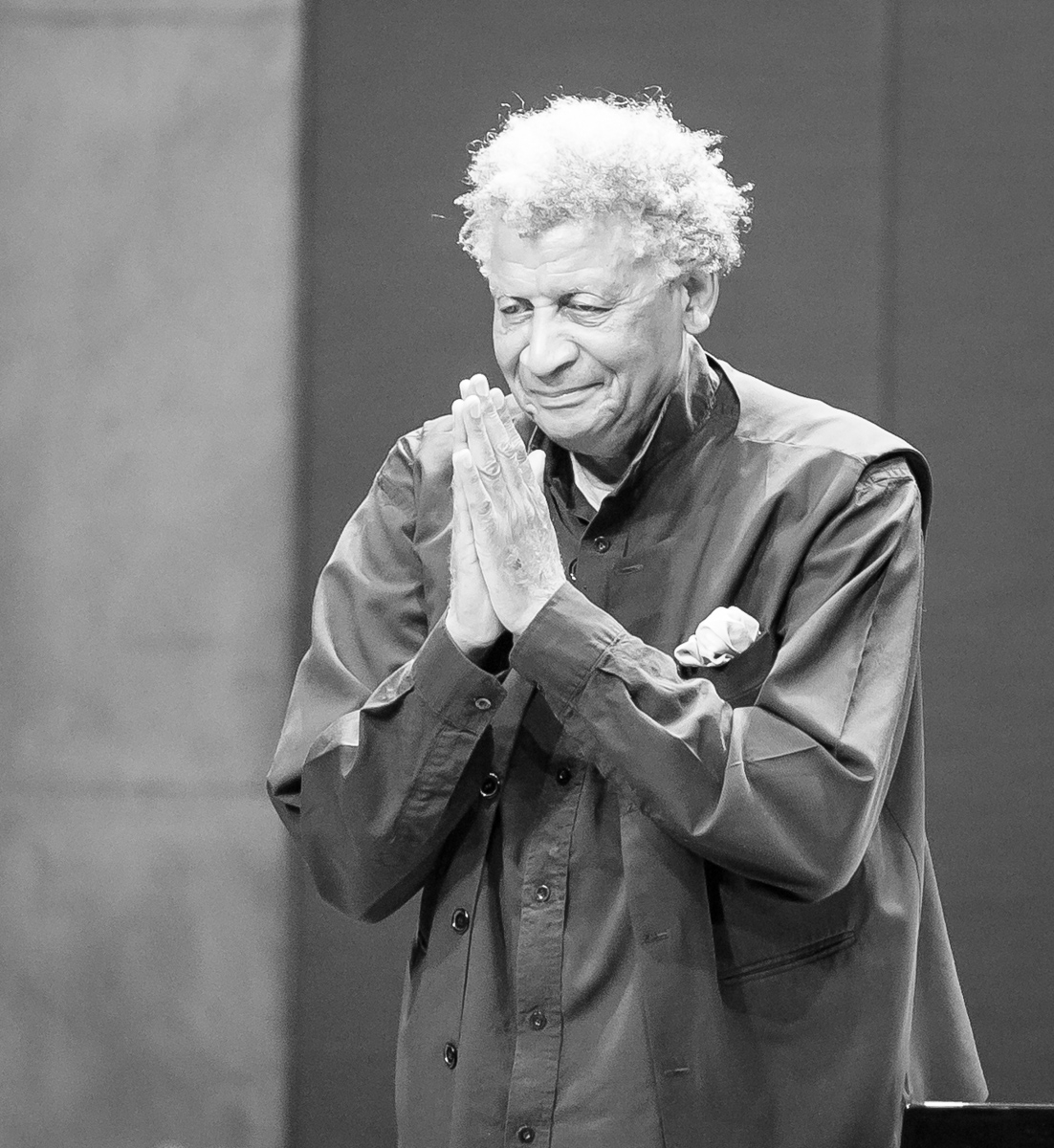 Abdullah Ibrahim at the stage of the University Aula. The concert was part of the Oslo Jazz Festival in Norway and took place on 16. August 2016. Lineup:Abdullah Ibrahim (piano)